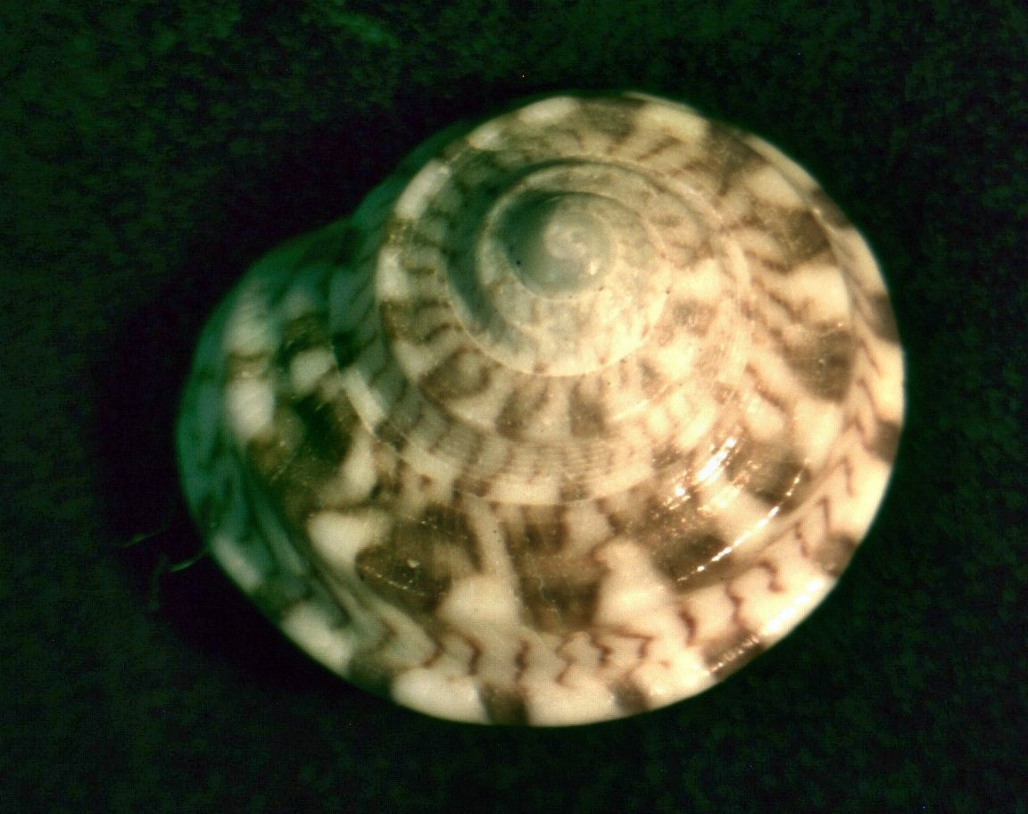 Notogibbula bicarinata (Adams, 1854), a top shell from the family Trochidae; Southern Australia